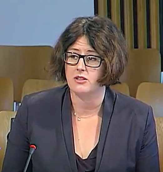 Health and Sport Committee - Scottish Parliament: 9th May 2017 1. Preventative Agenda: The Committee taking evidence from Dr Margaret McCartney, General Practitioner. Published by the Scottish Parliament Corporate Body.